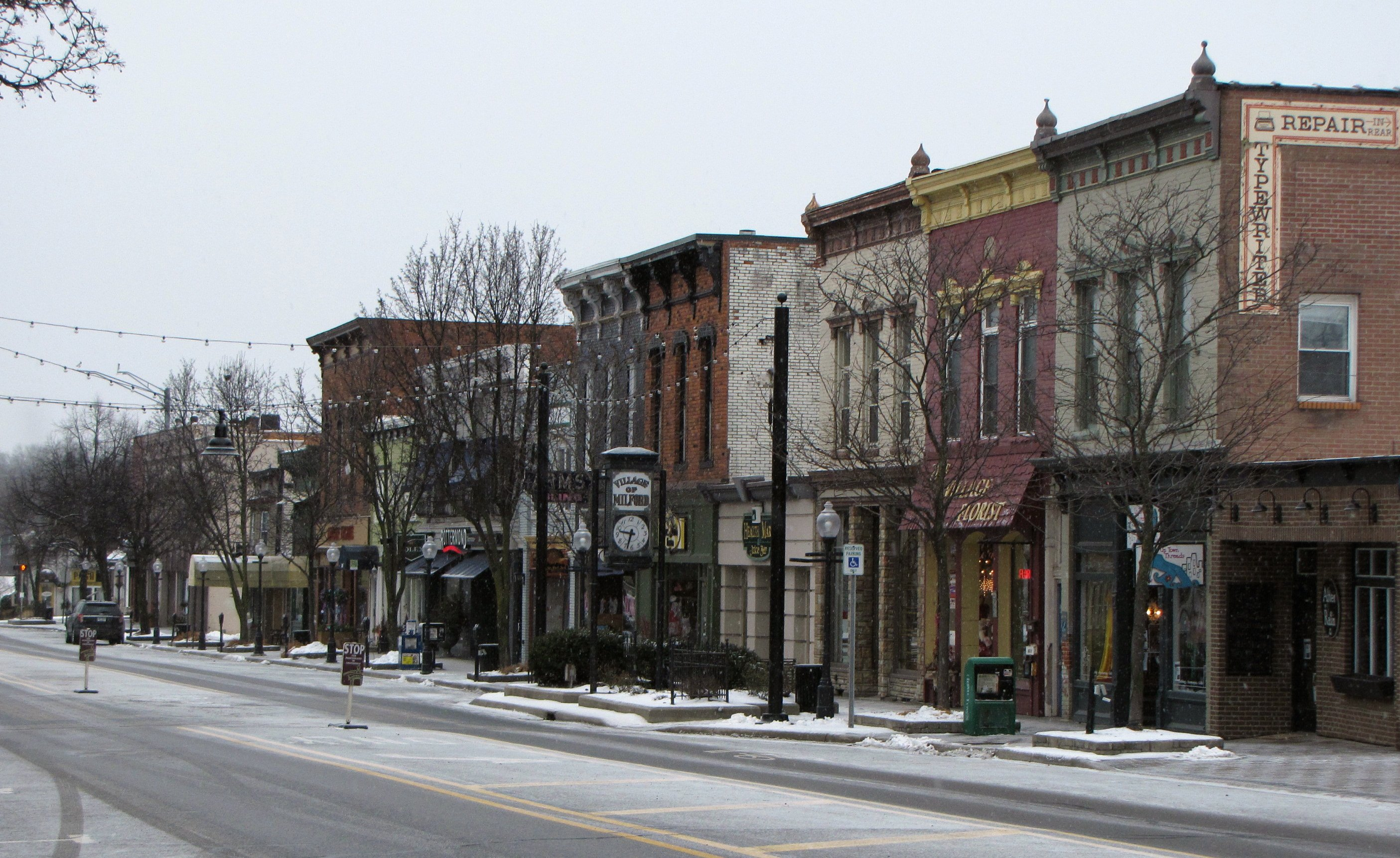 Weaver & Watkins Block (371, 401, 405 North Main) North Milford Village Historic District Milford, Michigan